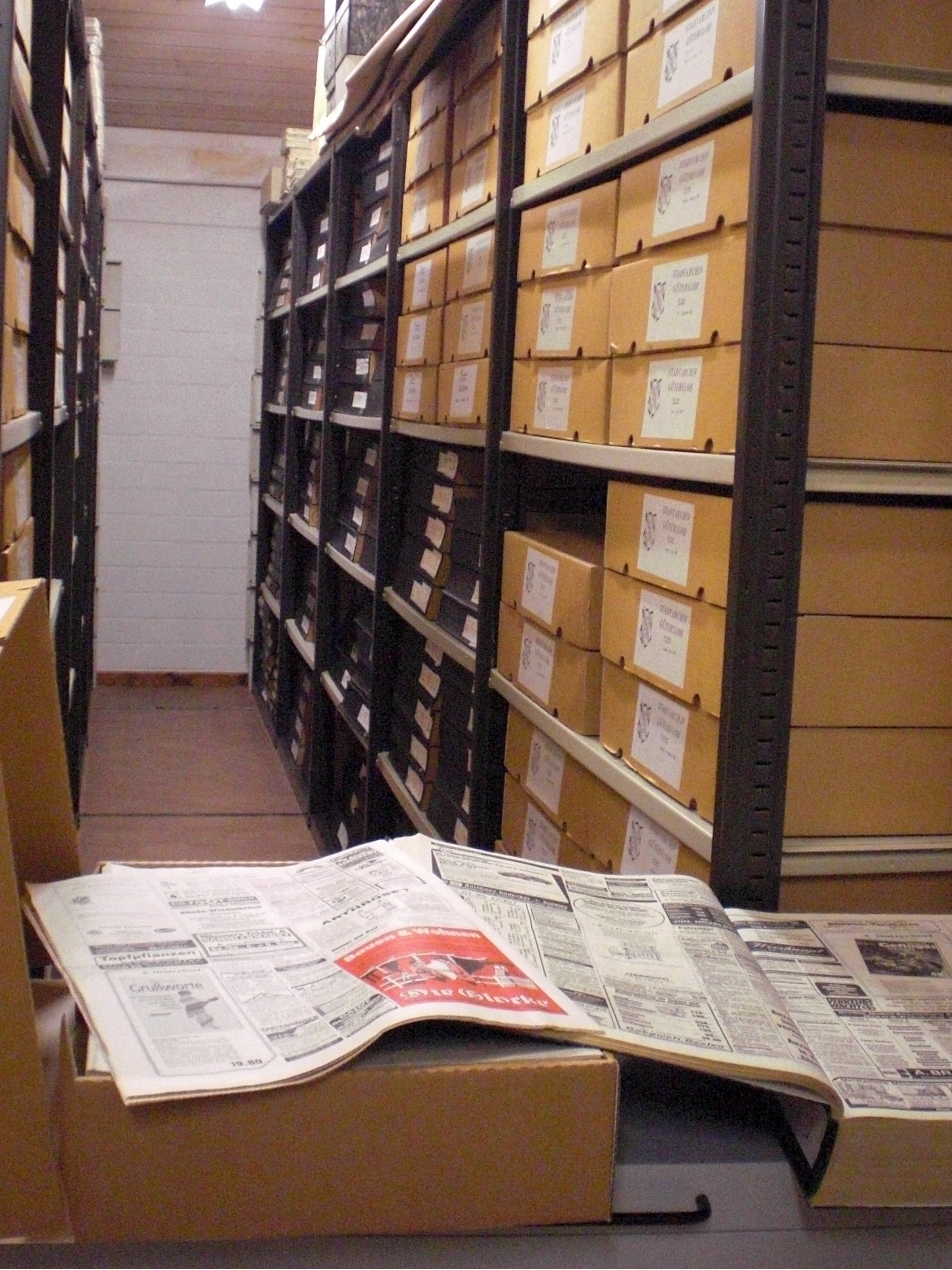 Lagerung von Zeitungsbänden und losen Zeitungen in Kartons im Archiv-Magazin